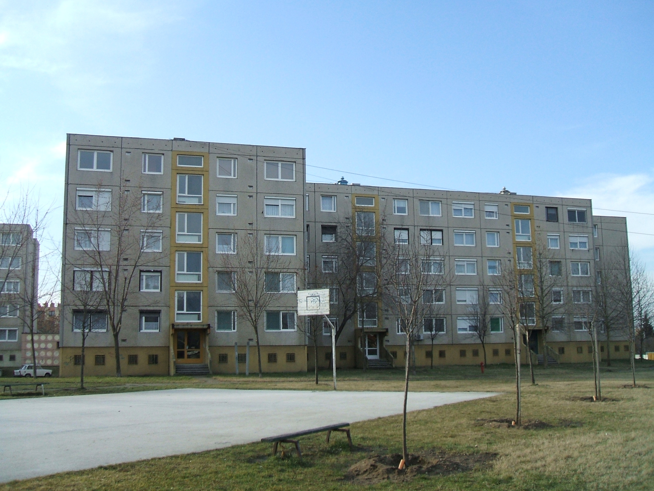 Schmidt housing estate, Dorog, Hungary